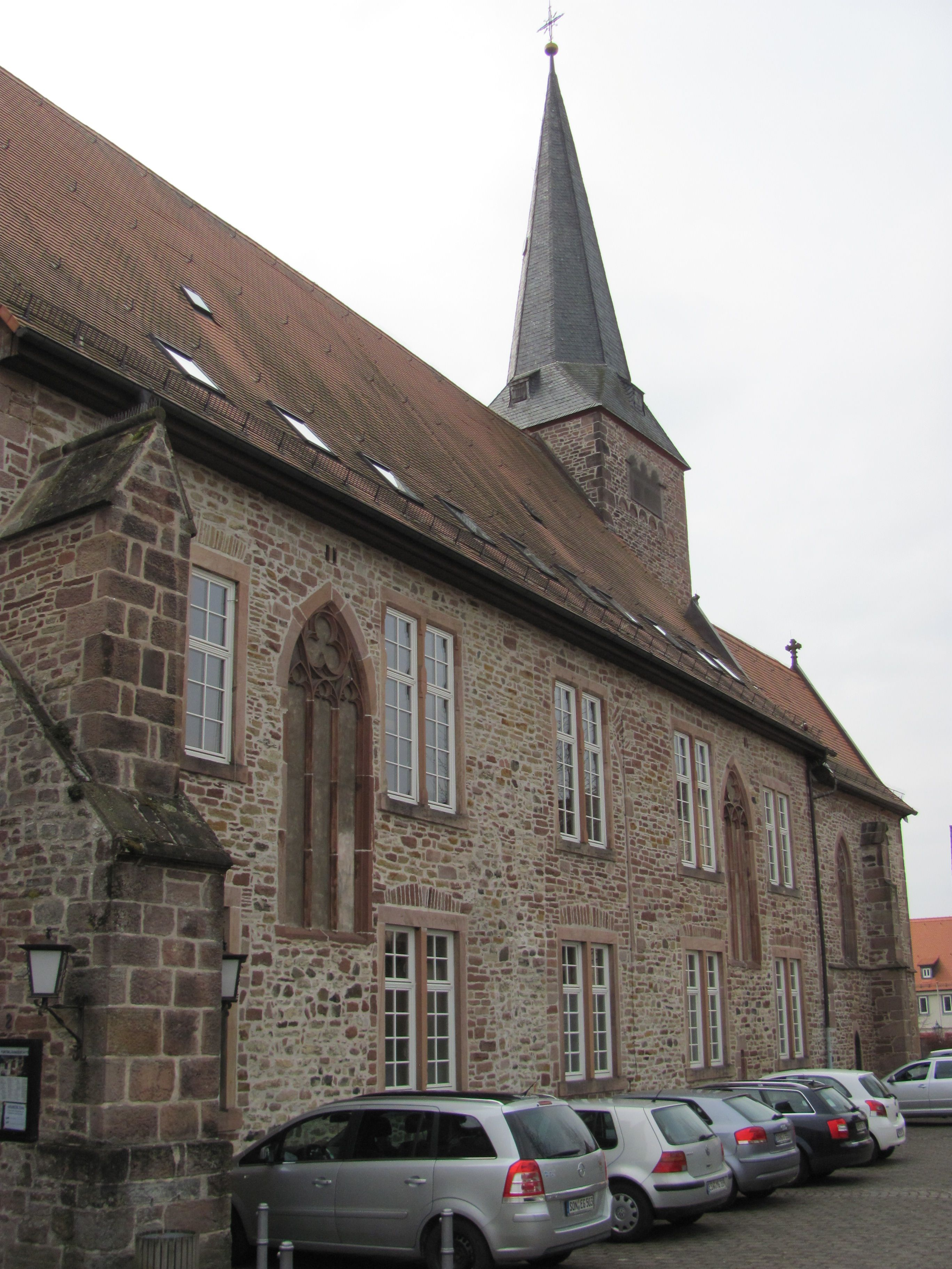 Schlüchtern Monastery, former church, main building